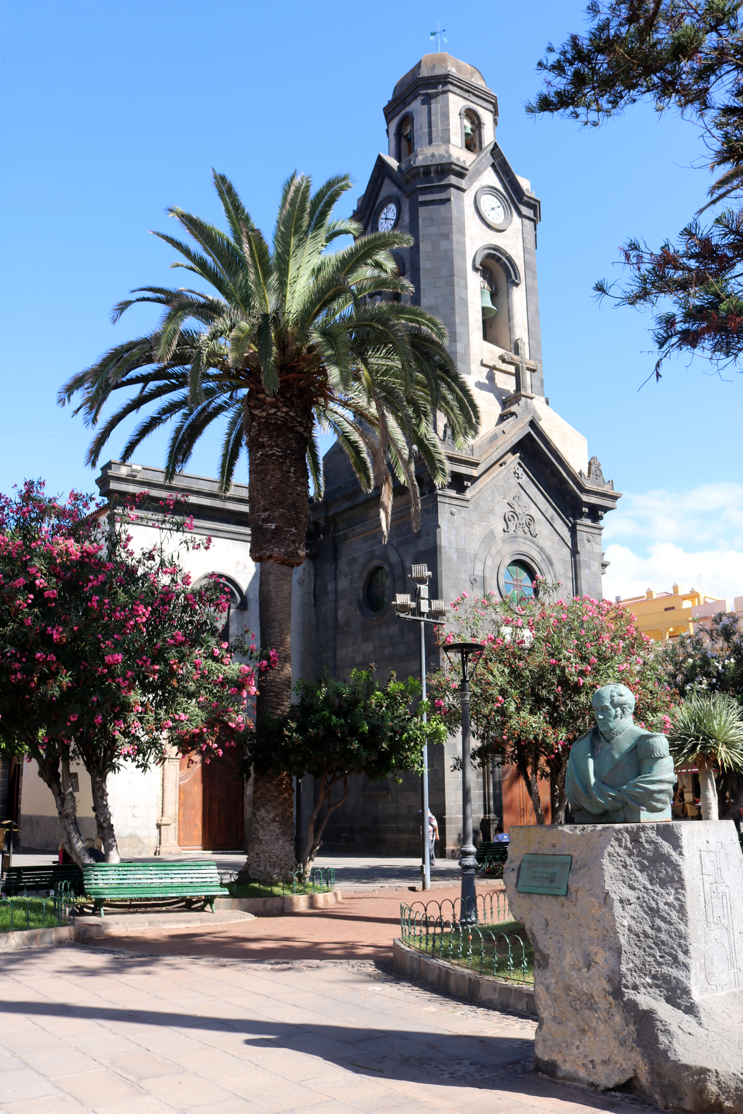 Exterior view of the church Nuestra Señora de la Peña de Francia, in Puerto de la Cruz, Tenerife